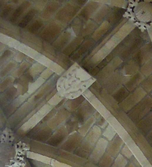 The vaulted ceiling above the Apse inside Guarda Cathedral (Sé da Guarda) in the city of Guarda, Centro Region, Portugal.